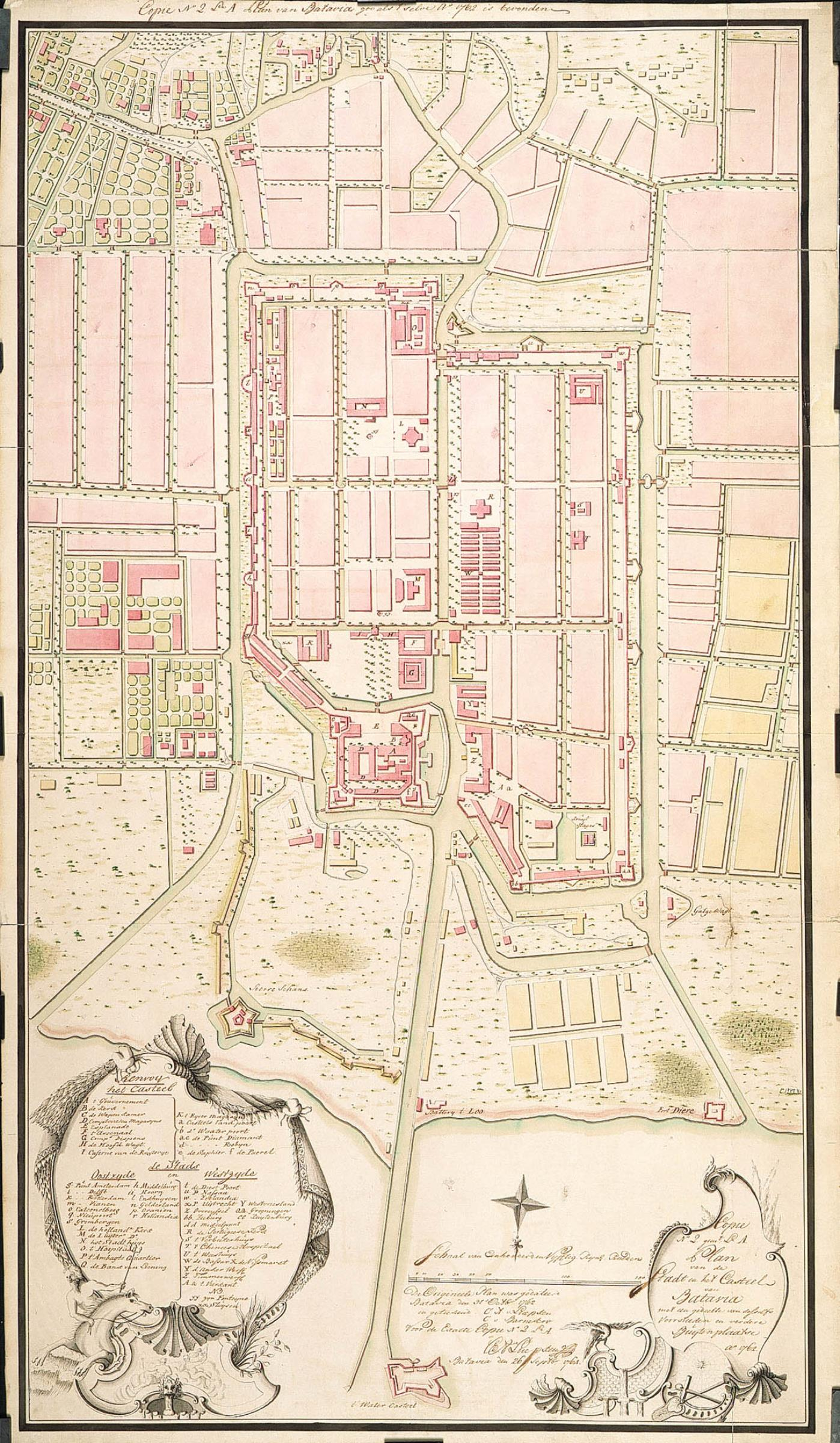 According to the Leupe catalogue (NA), the original title reads: Plan van de stadt en het Casteel van Batavia, met een gedeelte van desselfs Voorsteeden en meerdere Buytenplaatsen. Copy dated 1764 based on the situation in 1762. Written along the upper edge: Copie No. 2 La A. Plan van Batavia zoo als t' selve Ao 1762 is bevonden. Notes on reverse: Copie La A No 2 [written along the top and the bottom] / 1762 [in pencil] / Schaal van 24 R op den duim op 1/3456 [in pencil, numbers are represented as a fraction]. Various keys.